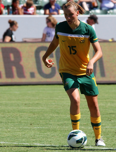 Australian WNT midfielder Emily van Egmond playing against the USWNT in September 2012 during an international friendly in Carson, LA